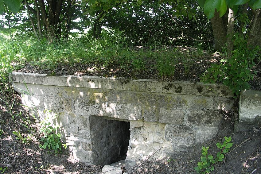 relict of railway line Svor - Jablonné v Podještědí, Czech Republic